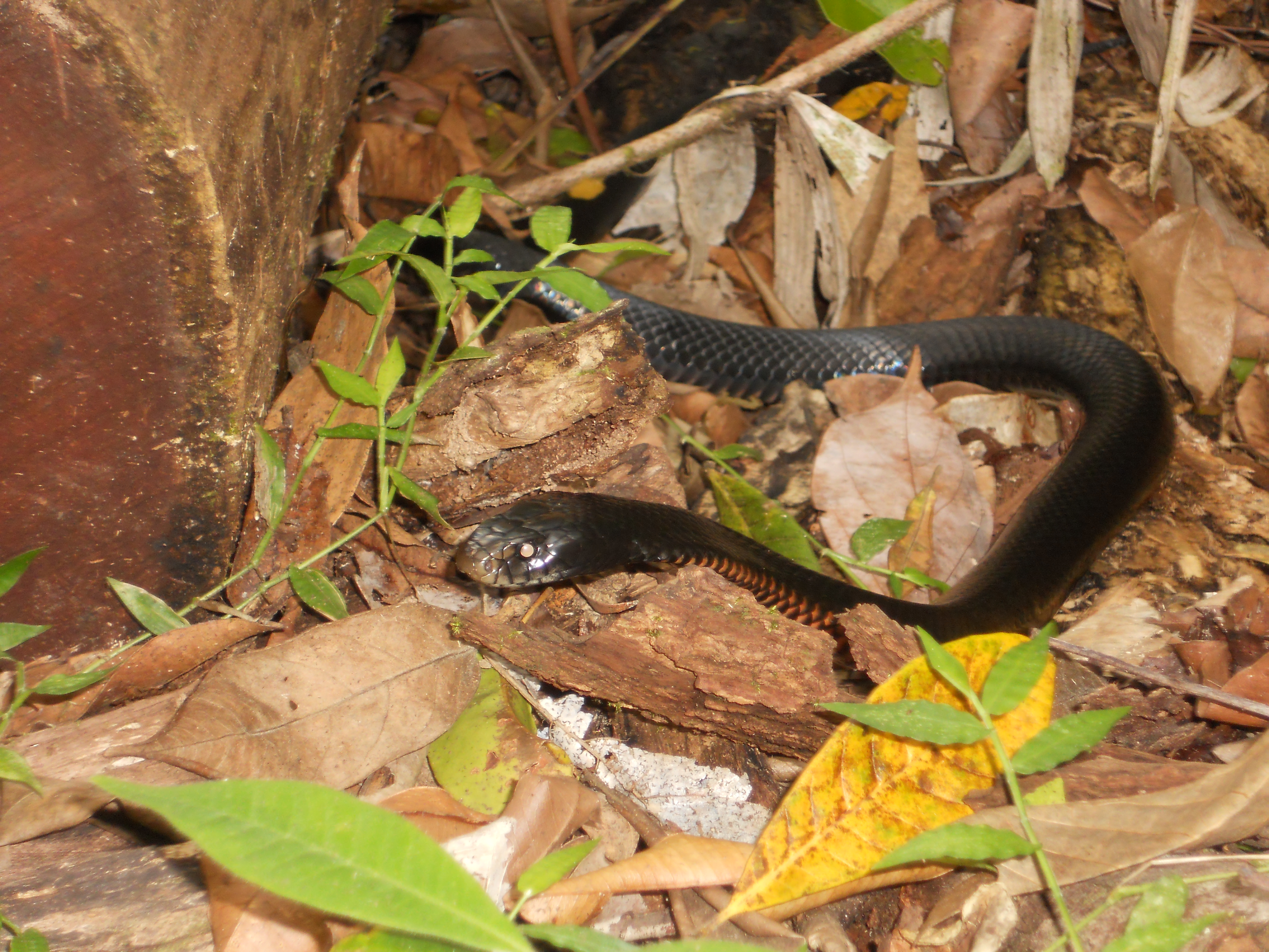 Red-bellied Black Snake at Eacham Lake, Atherton Tableland, Queensland